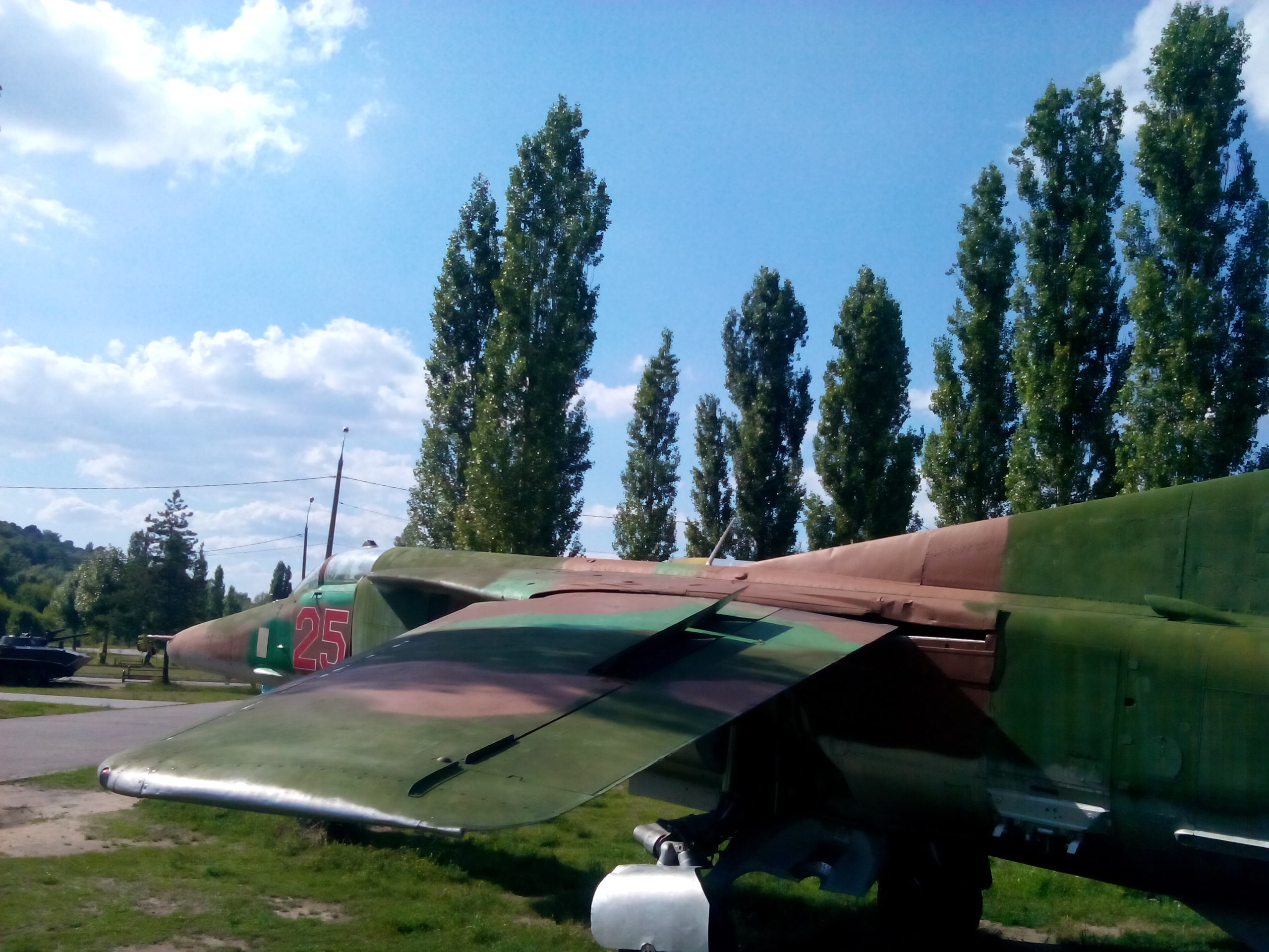 The Wing Of The MiG-27. Victory Park In Nizhniy Novgorod